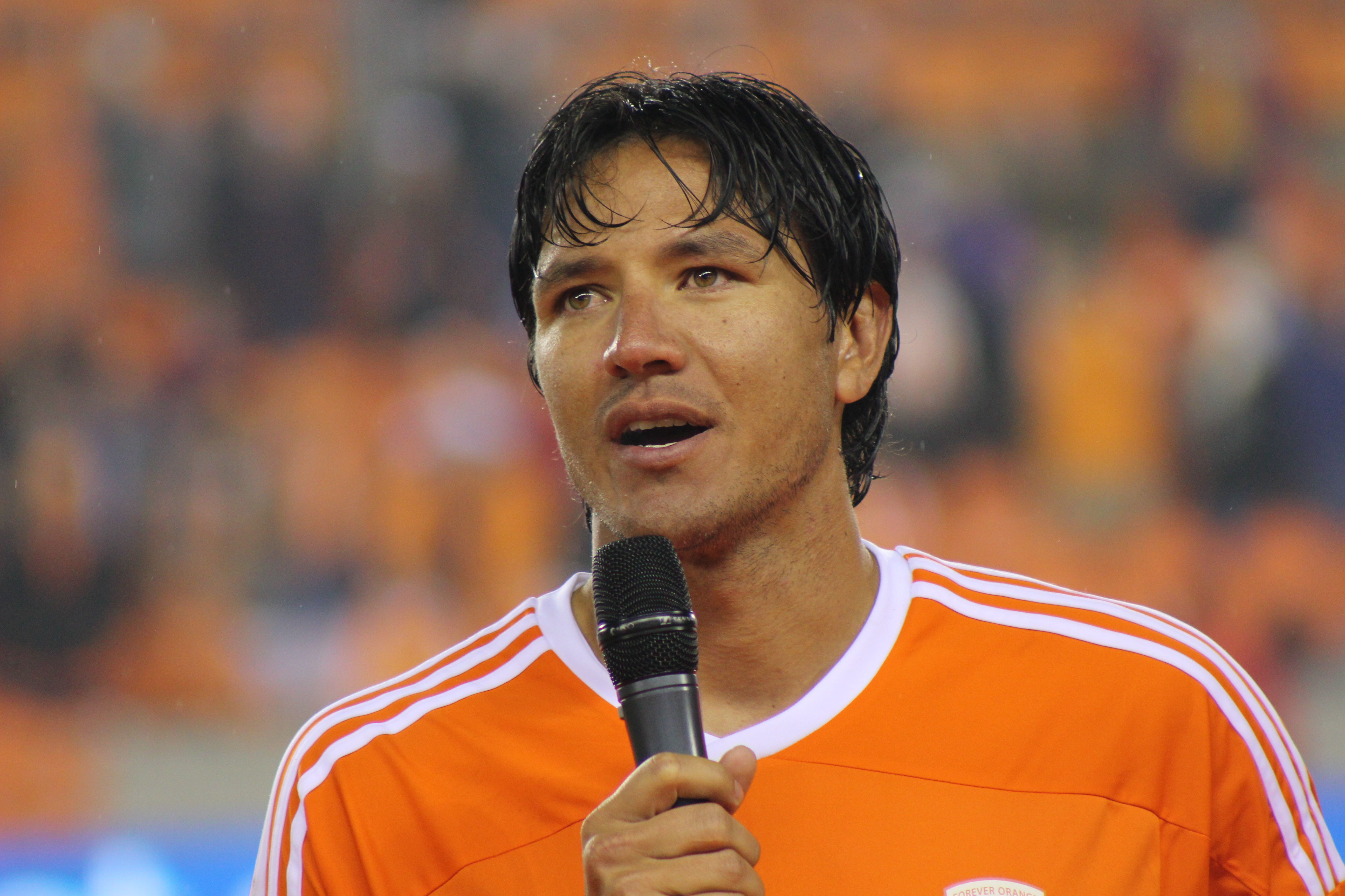 Brian Ching speaks to the crowd at BBVA Compass Stadium in Houston, Texas, USA on December 13, 2013 after his testimonial match to signal his retirement from soccer.